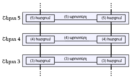 OSI model in Armenian